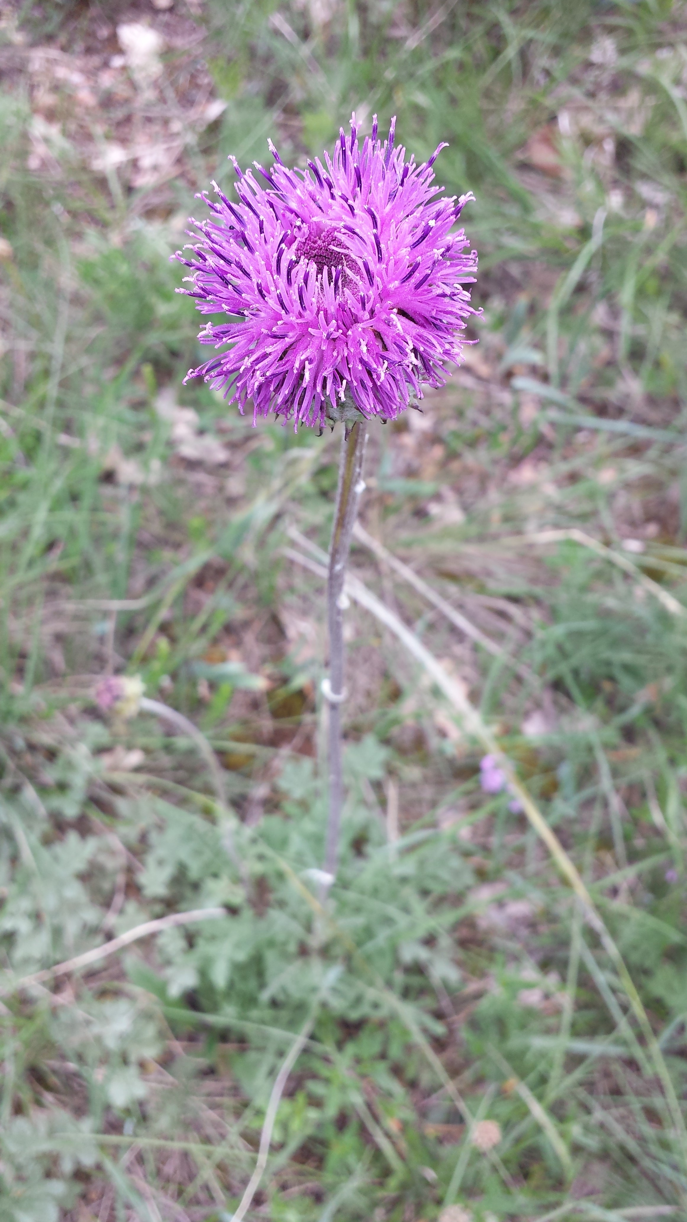 Rosette Taxon: Jurinea mollis (sensu Fischer et al. EfÖLS 2008 ISBN 978-3-85474-187-9; det. M. A. Fischer 2013-05-18) Location: natural monument WB-086 near Brunn an der Schneebergbahn, district Wiener Neustadt, Lower Austria - ca. 350 m a.s.l. Habitat: dry grassland